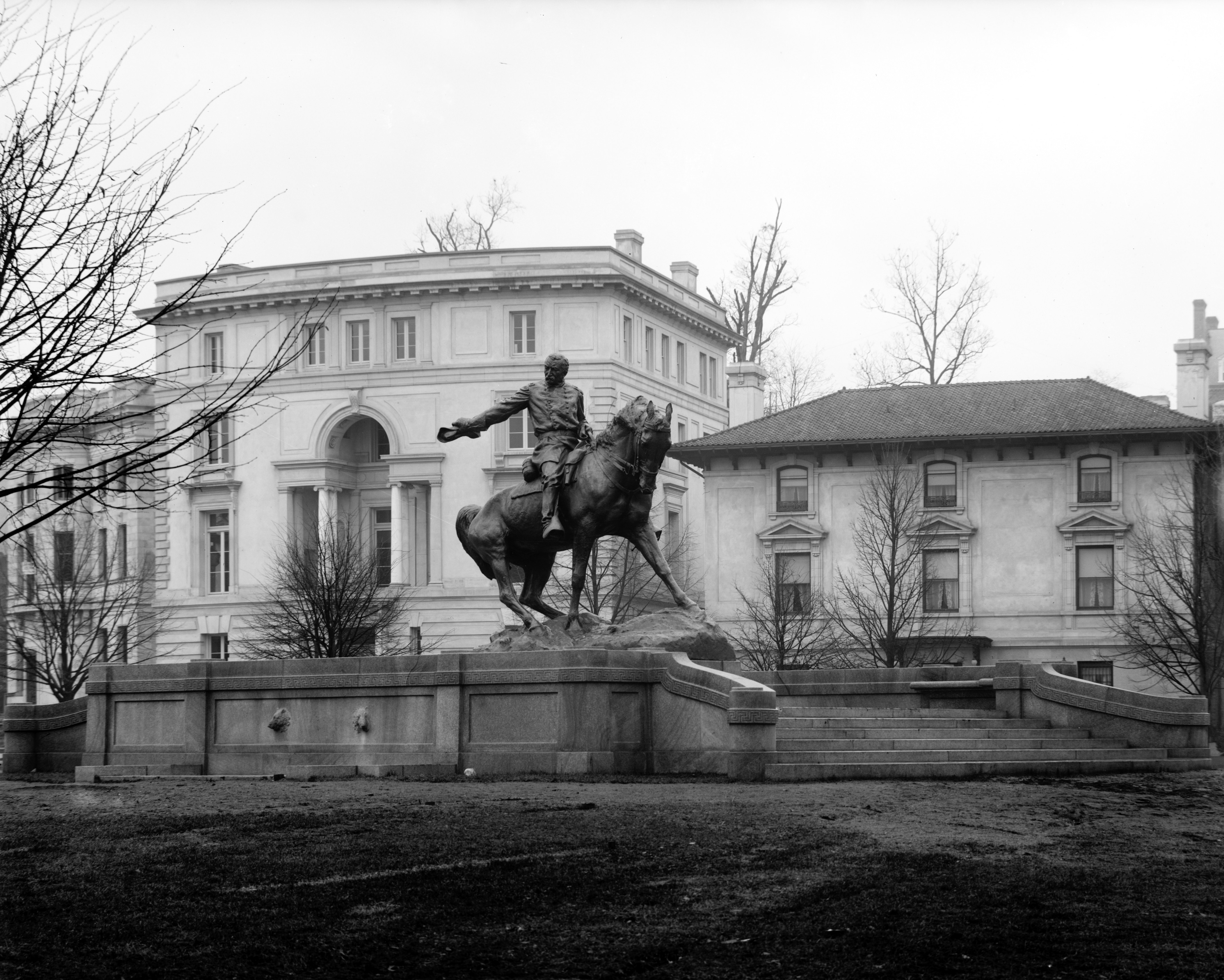 Sheridan Statue, [Washington, D.C.]